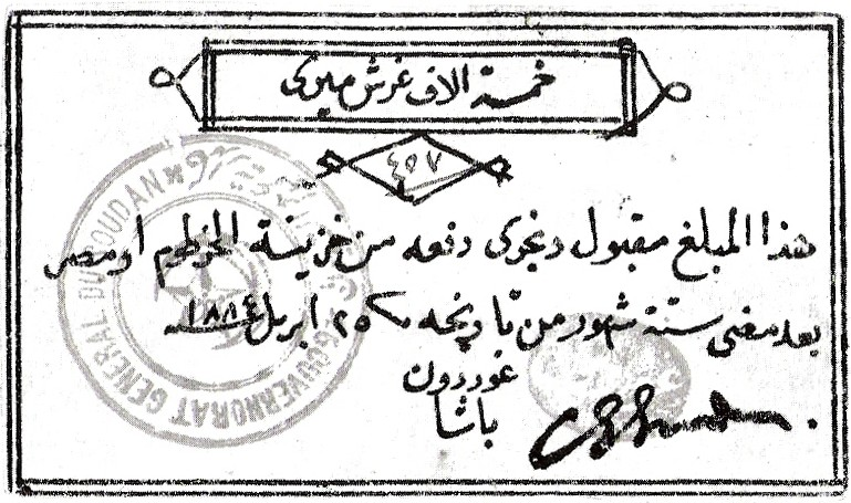 Emergency money, issued in Khartoum by Gordpon Pascha while siege of Khartoum by mahdi troops in 1885